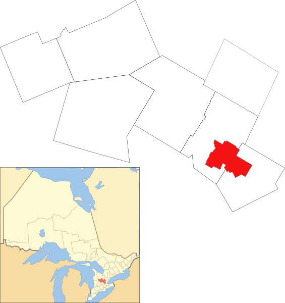 The location of Guelph in relation to Wellington County.